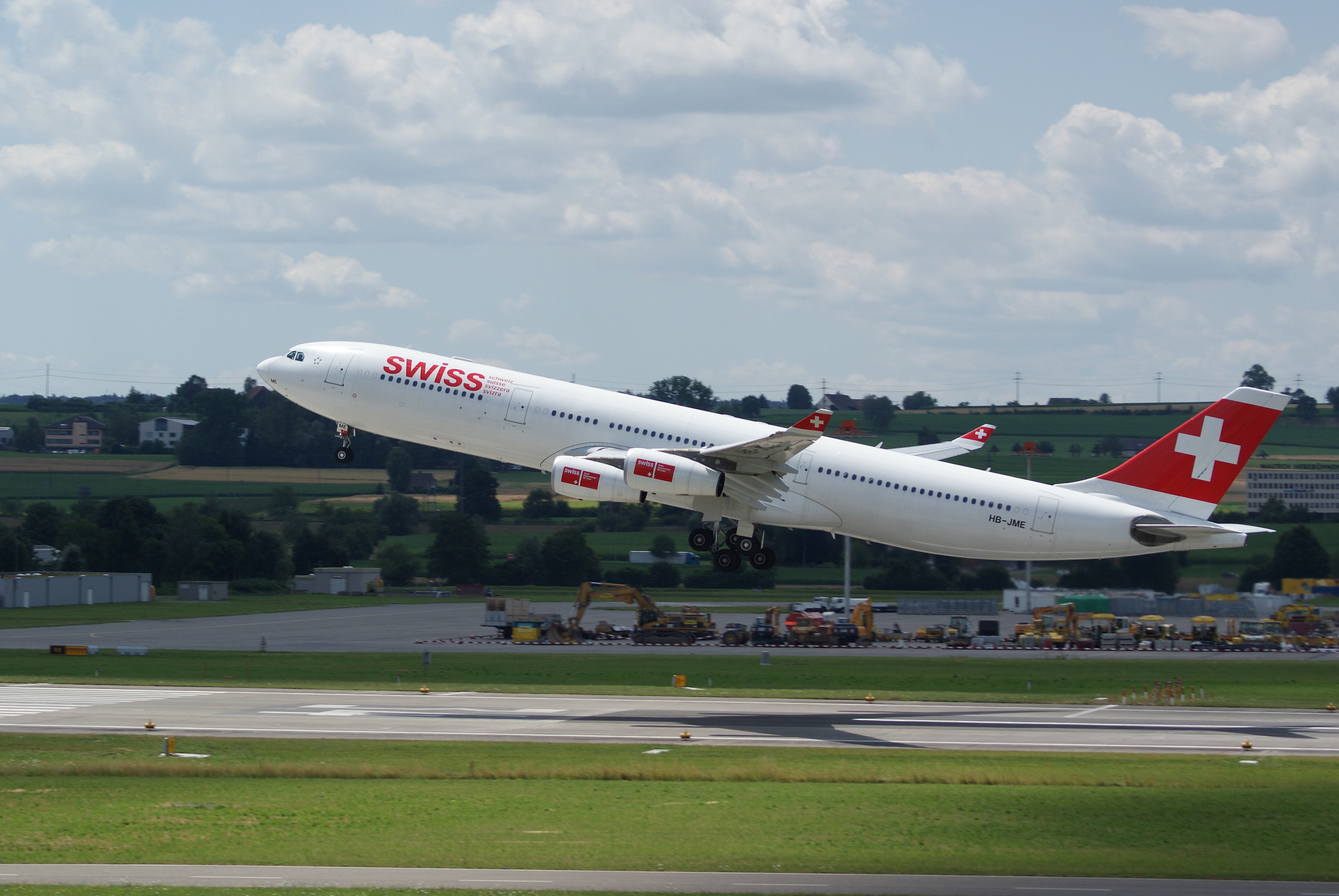 Swiss International Air Lines Airbus A340-300 taking off at Zürich